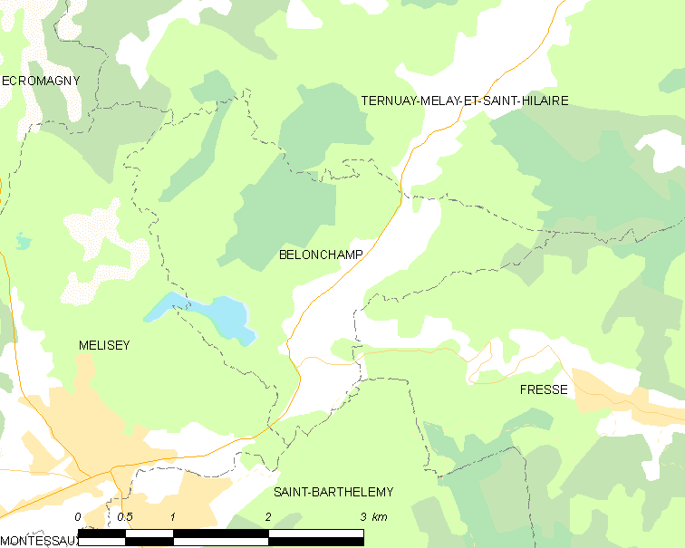 Map of French municipality